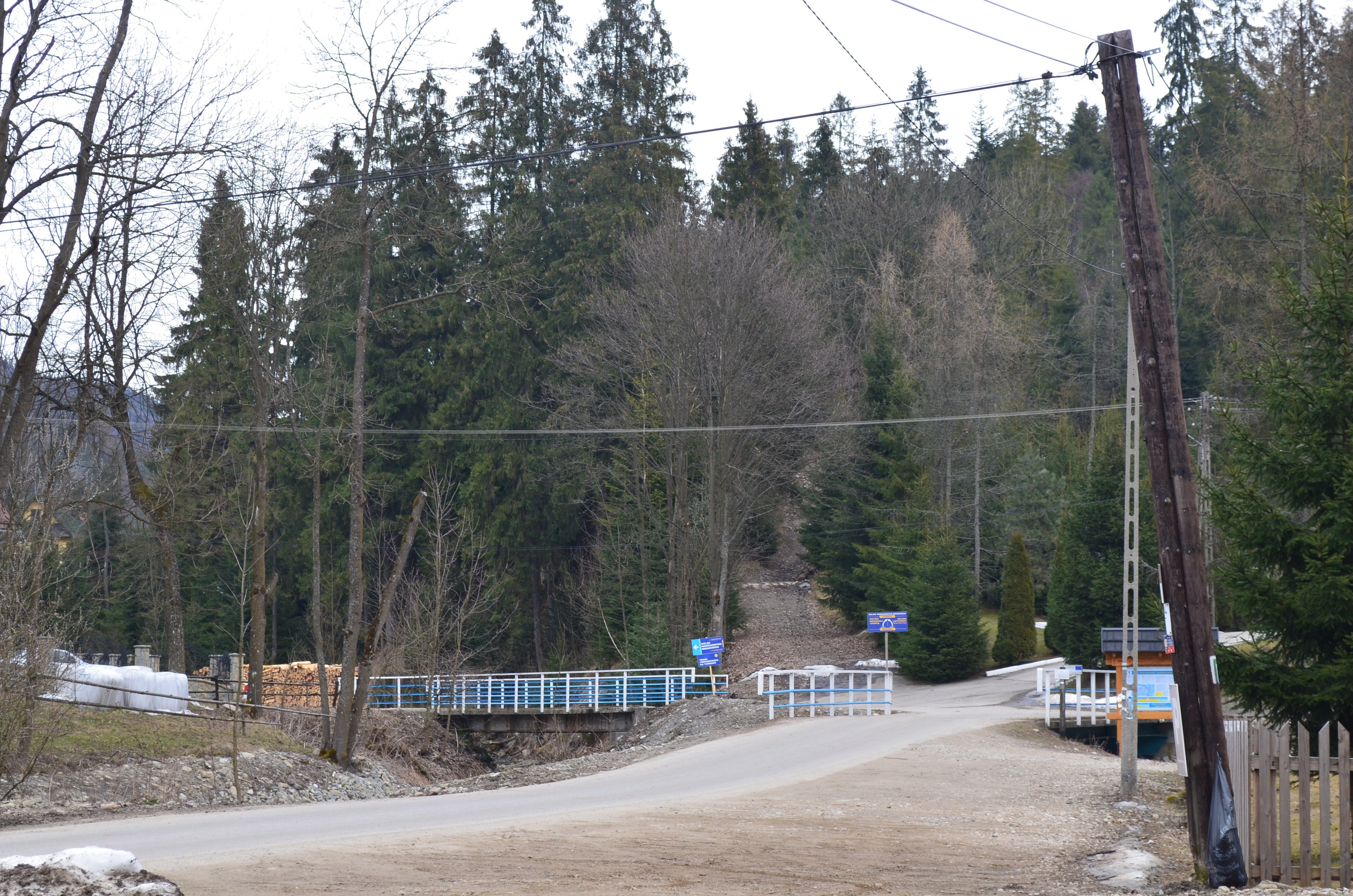 Obidowa, village in Poland, Gorce